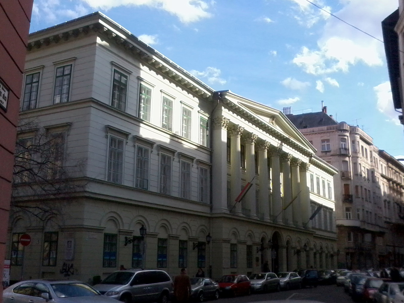 The building of Pest County's local government in Budapest's 5th district (Városháza utca)